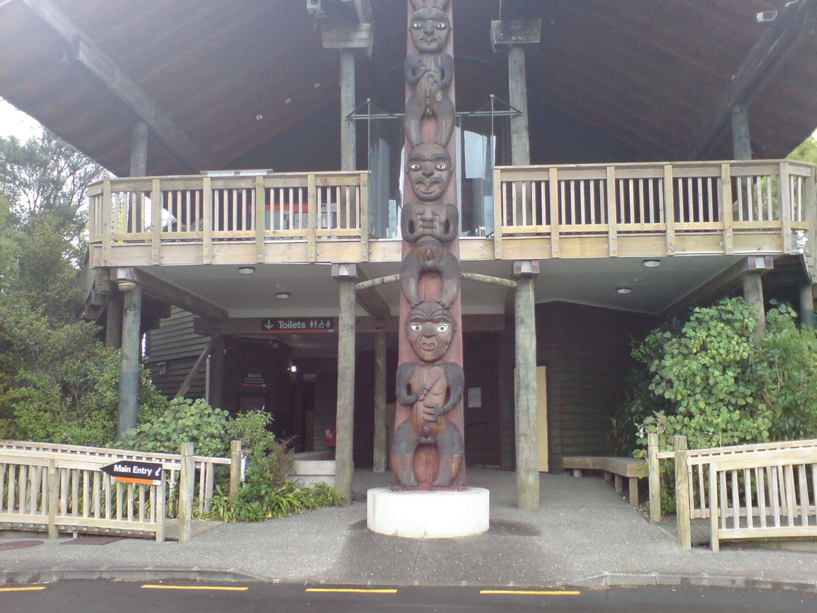 The Arataki Visitor Centre, located in the Waitakere Ranges Regional Park, North Island, New Zealand.